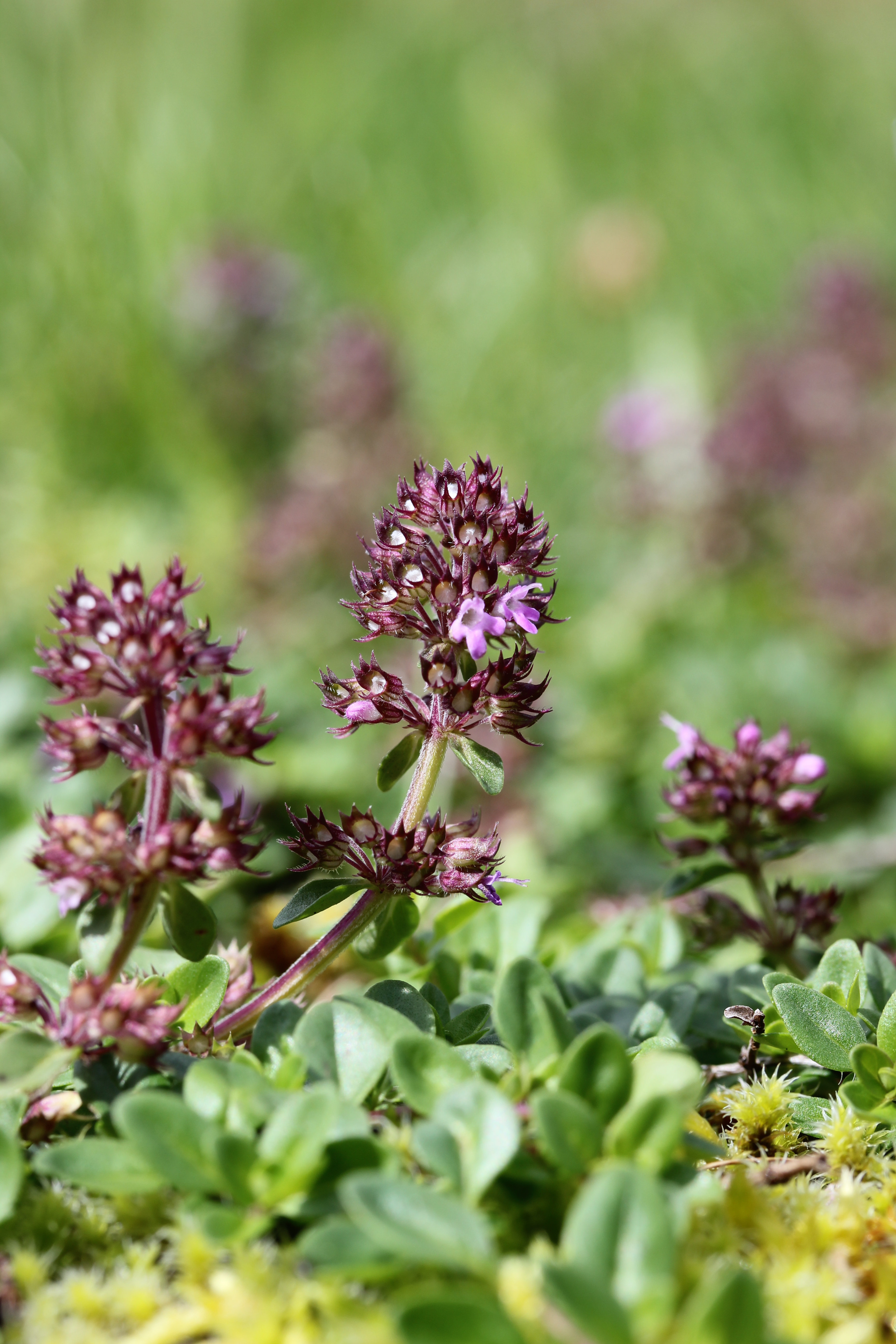 Wild Thyme - Thymus alpestris